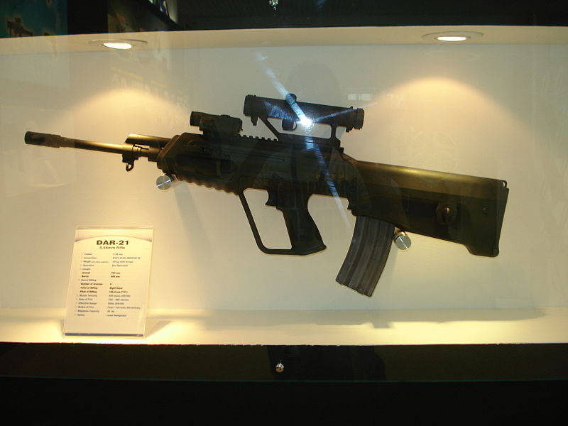 The Korean XK8 rifle on display at the International Defense Industries Fair in Ankara, 2007. It is here listed under its alternative name as DAR-21, which stands for Daewoo Assault Rifle, 21st century.